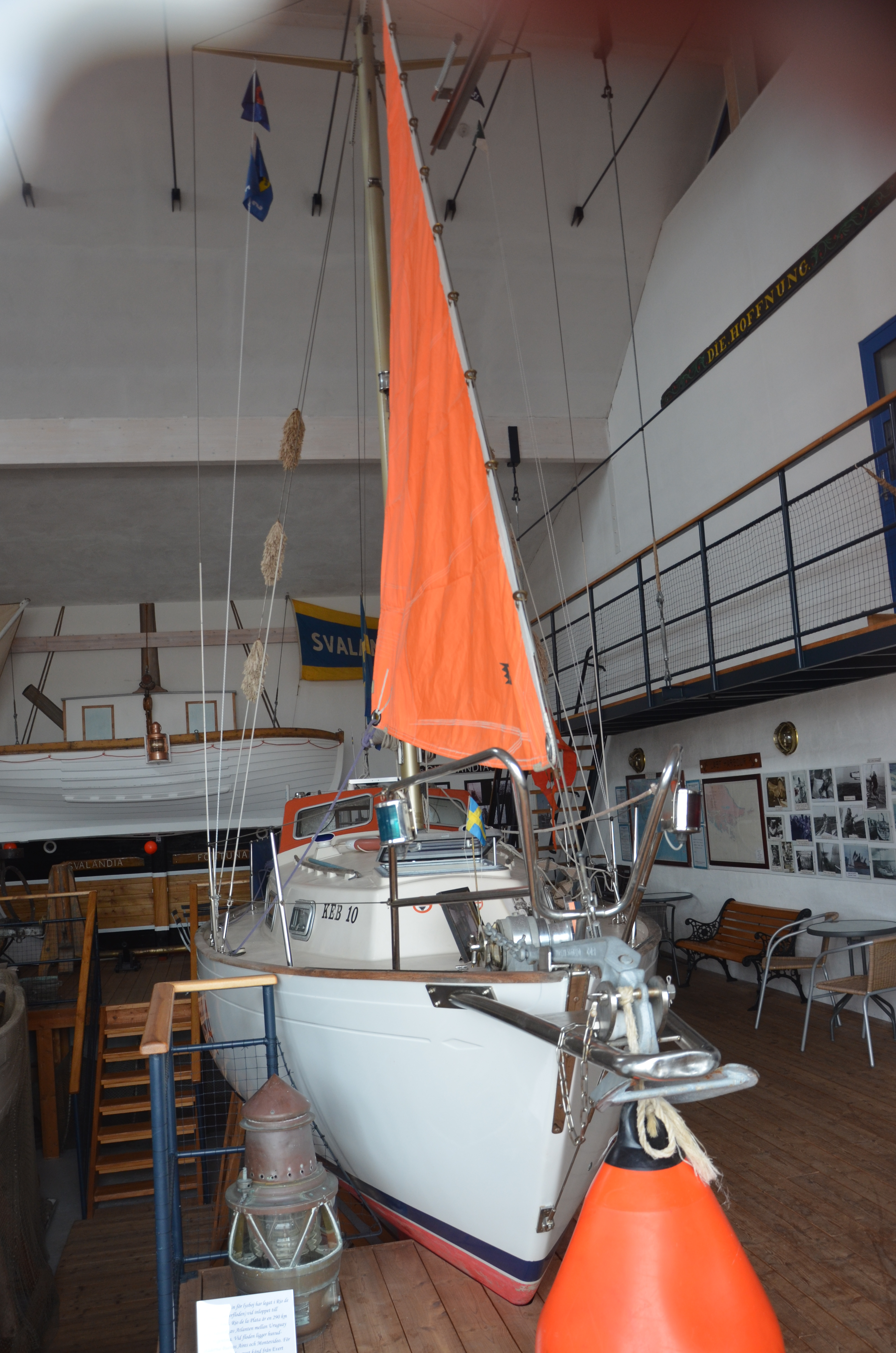 Kurt Björklund's sailing yacht Golden Lady at Råå museum för fiske och sjöfart, Råå, Helsingborg, Sweden